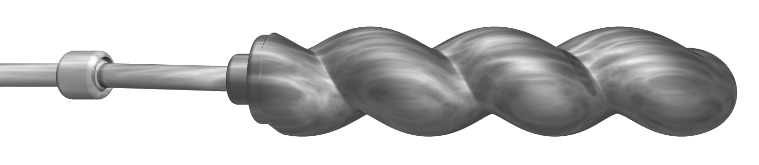 The helical rotor of a progressive cavity pump, and the two universal joints in the drive mechanism.